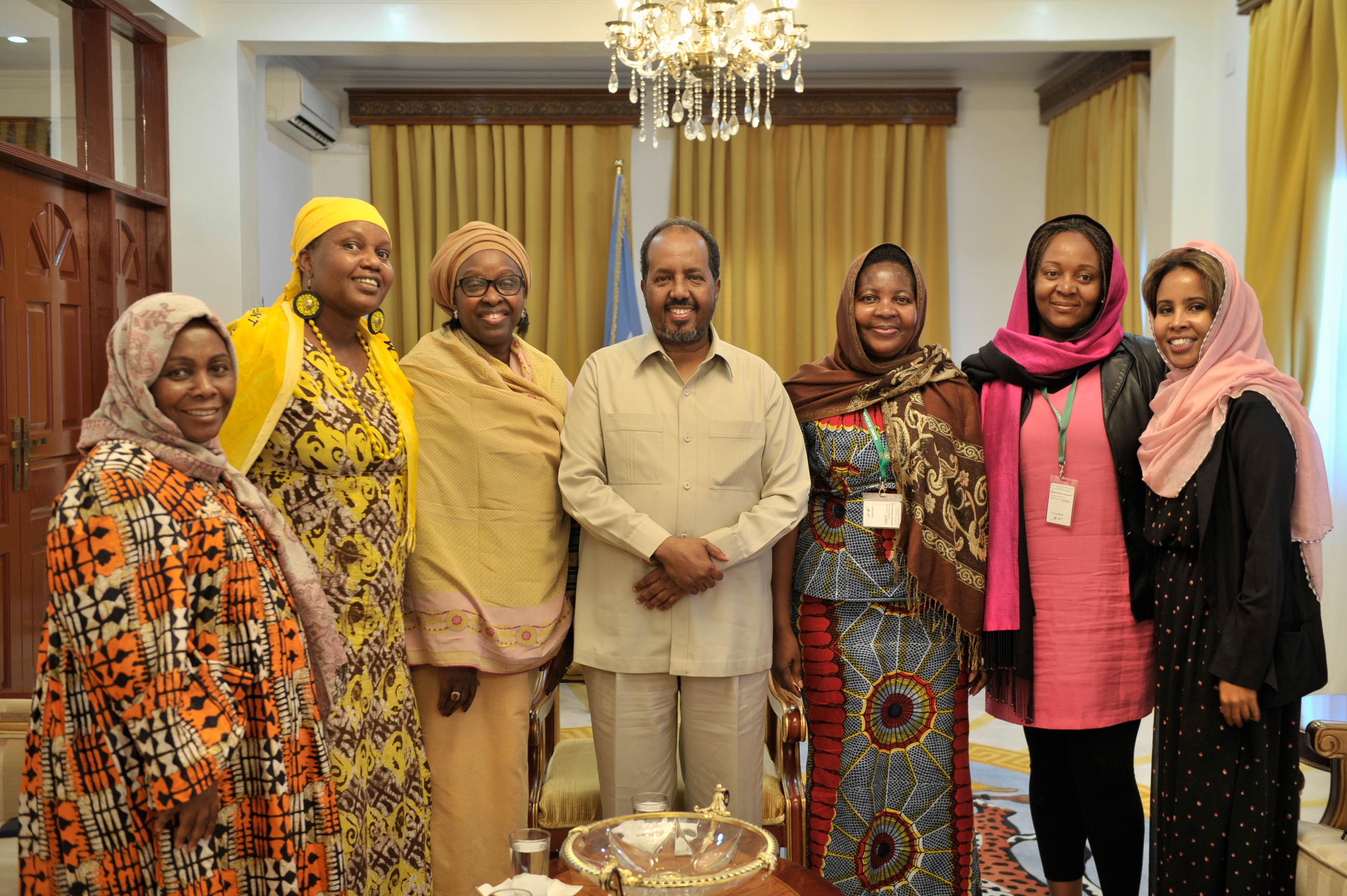 The Special Envoy on Women, Peace and Security of the Chairperson of the African Union Commision, Bineta Diop , and other African Union officials stand with Somalia's President, Hassan Sheikh Mohamoud, at Villa Somalia in Mogadishu on November 25. The Special Envoy on Women, Peace and Security of the Chairperson of the African Union Commision, Bineta Diop, landed in Somalia today to begin a two day visit in which she will meet with both government and African Union officials to discuss women's issues in the country. AMISOM Photo / Tobin Jones